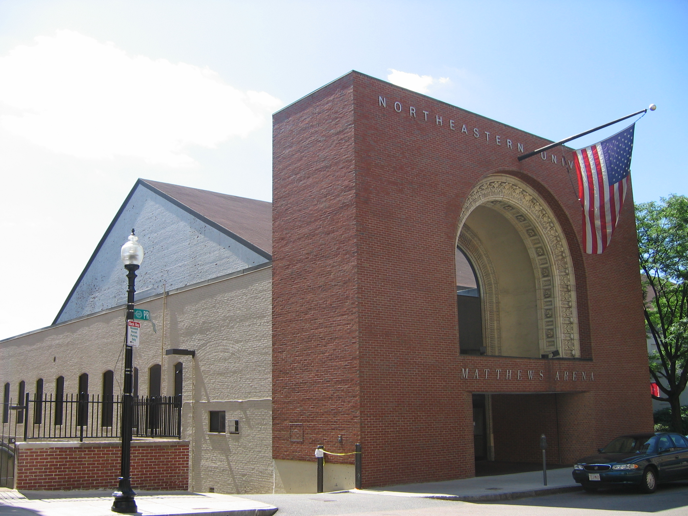 Football & Basketball Facilities Northeastern Hockey Arena